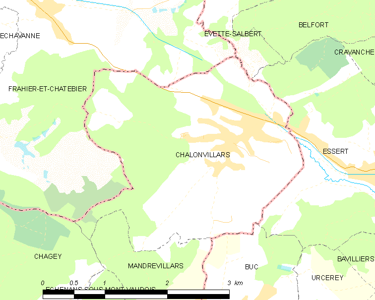 Map of French municipality